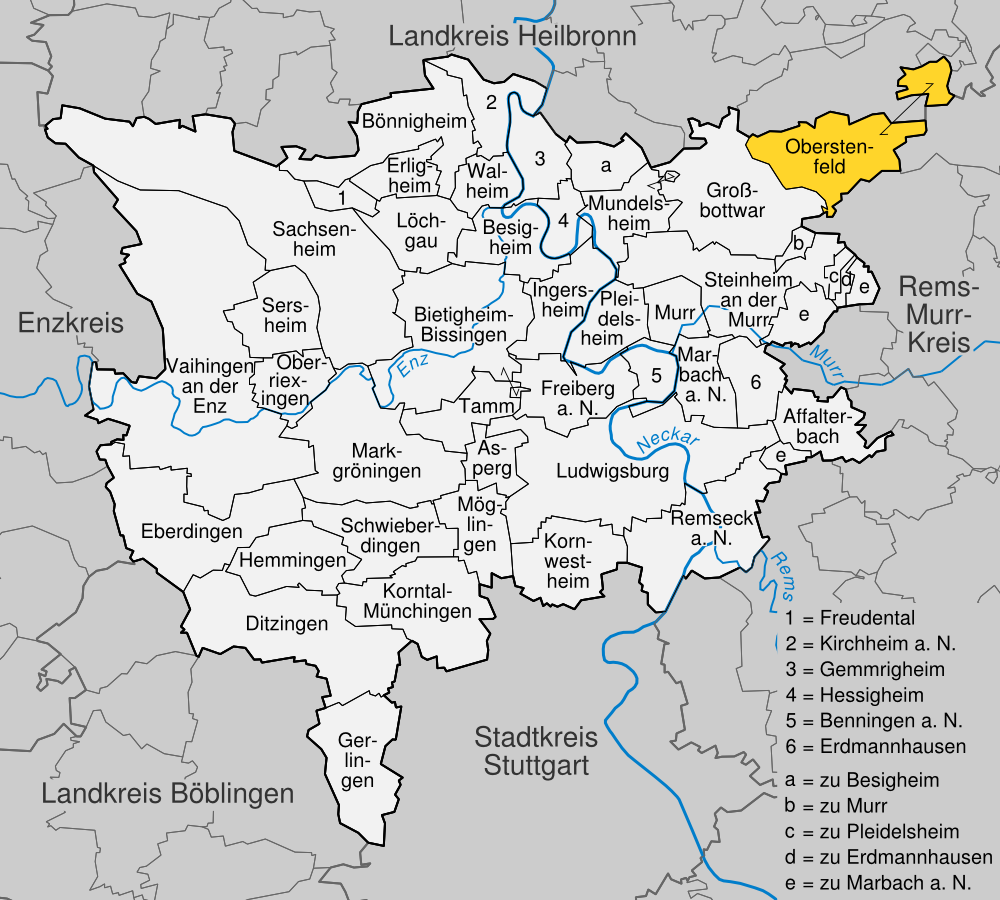 position of Oberstenfeld within distict of Ludwigsburg, Baden-Württemberg, Germany